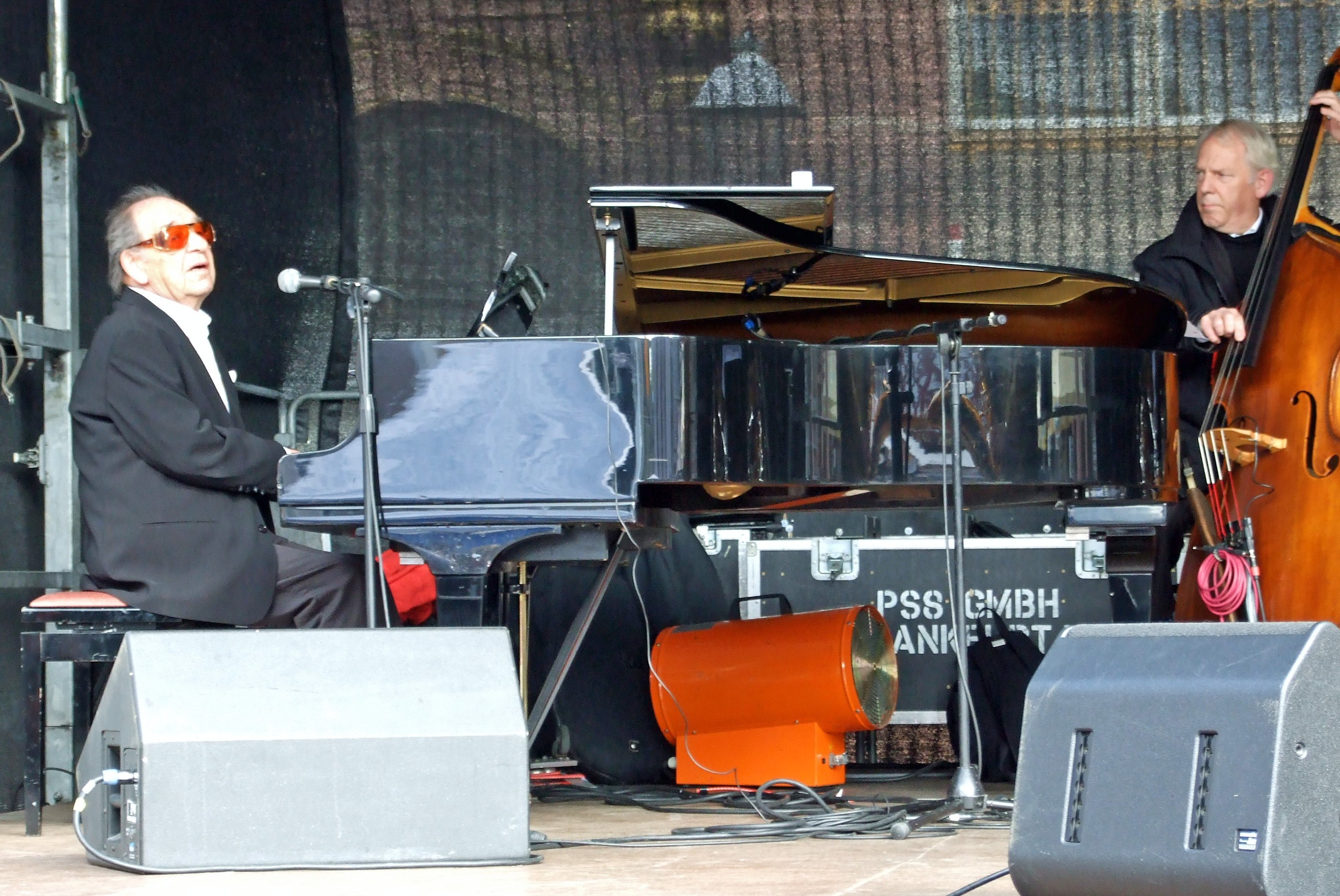 Paul Kuhn and Gery Todd at Roemerberg in Frankfurt am Main